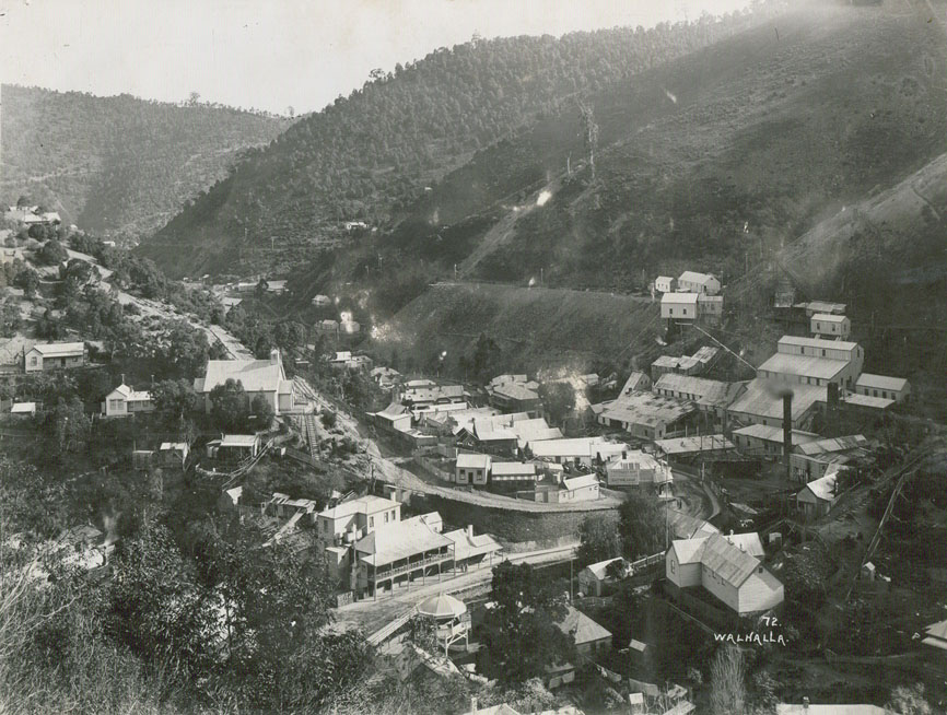 View of Walhalla, Victoria ca1910 showing bandstand, hotel etc